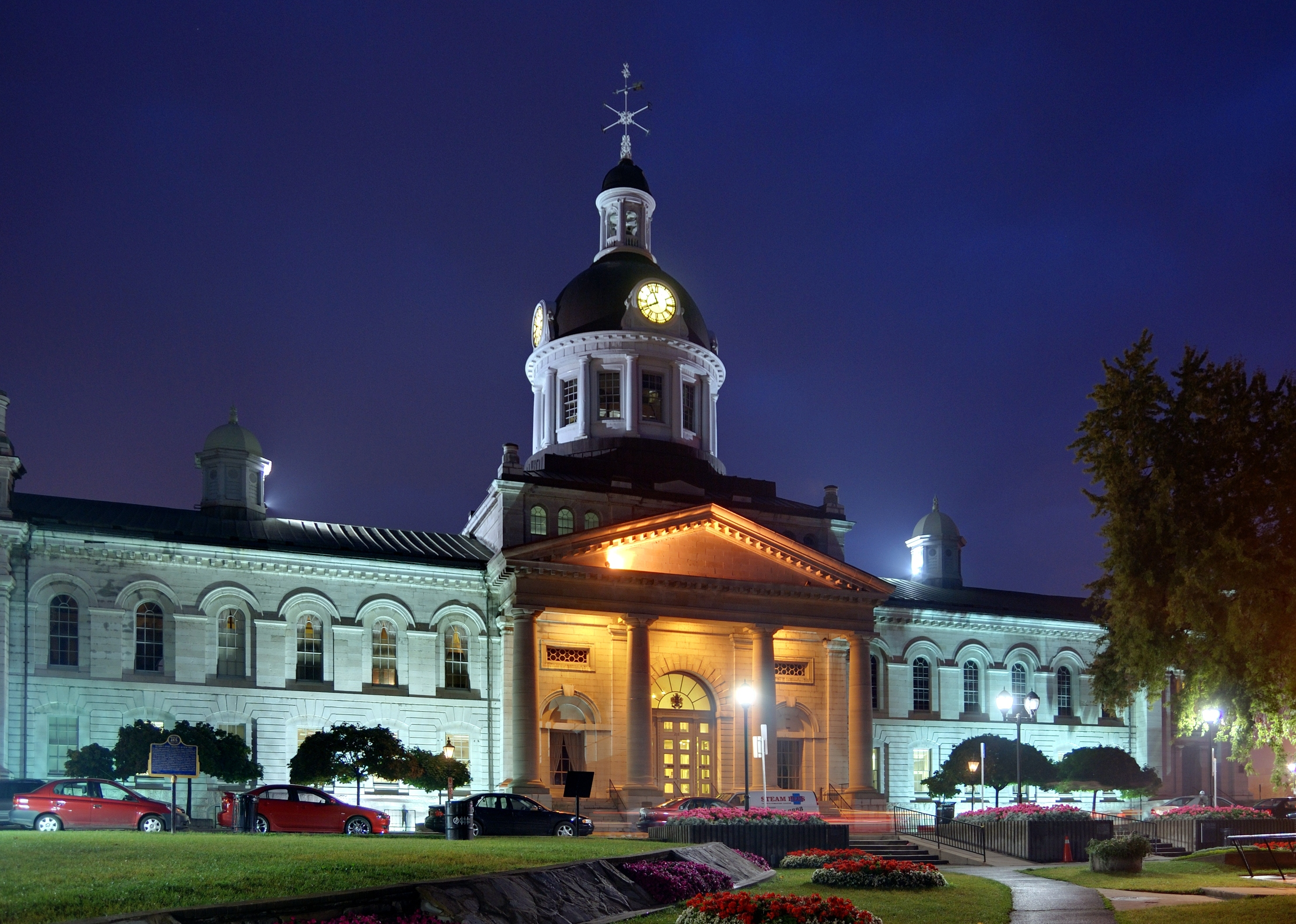 Kingston: Town hall